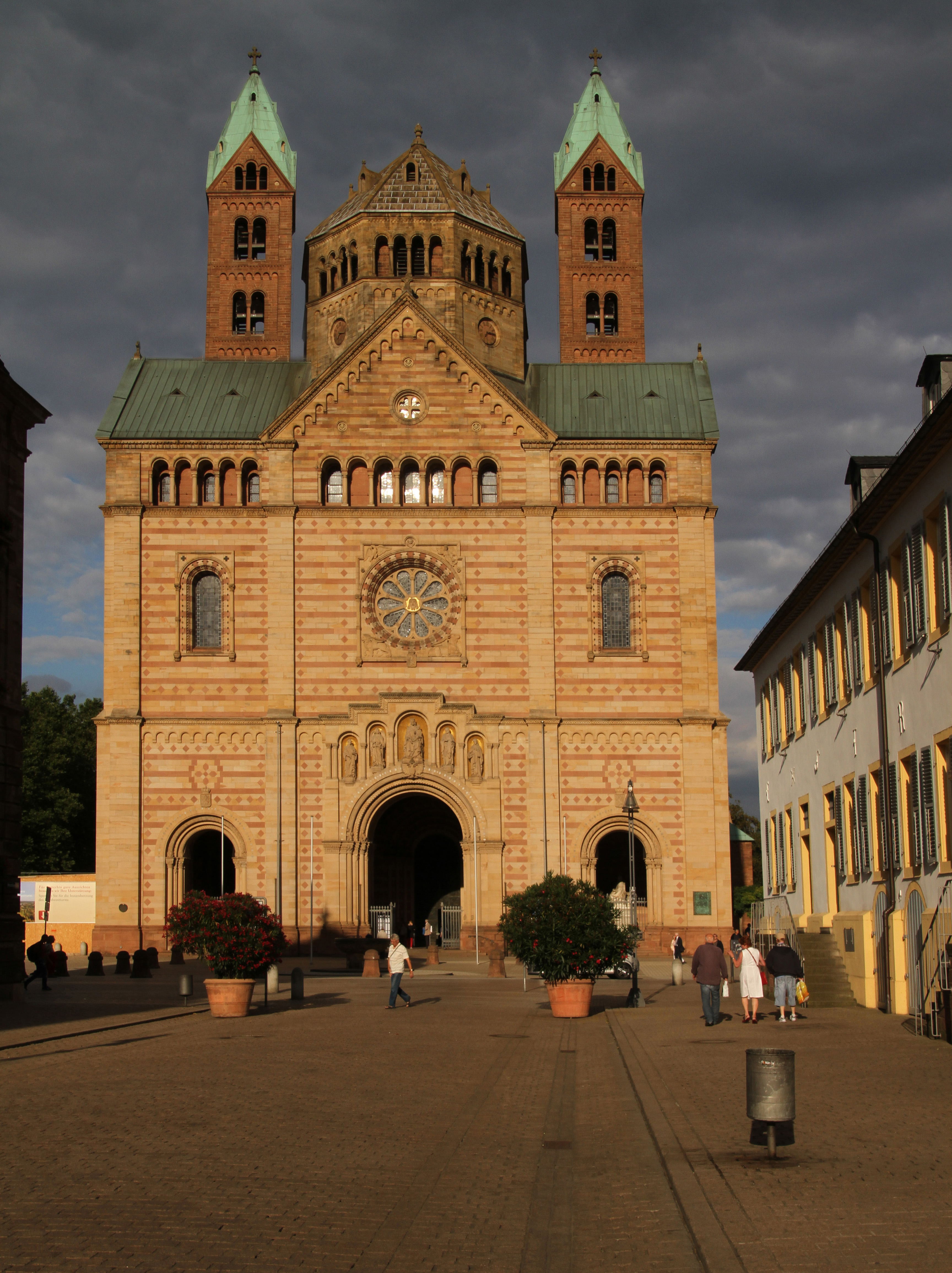 Speyer cathedral